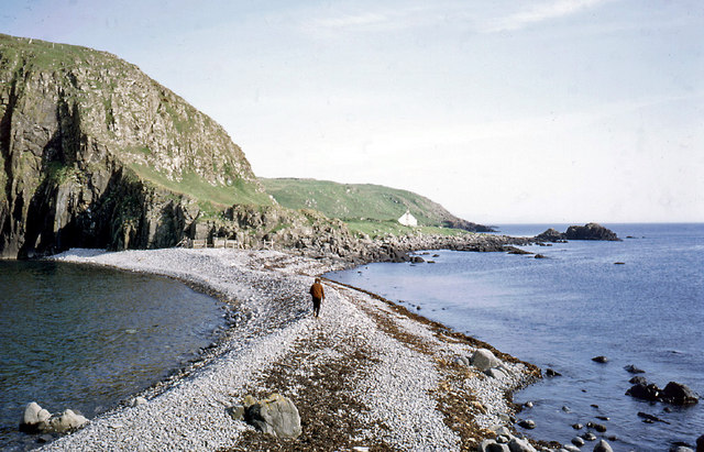 Storm beach connecting Garbh Eilean and Eilean an Tigh The narrow neck of pebbles is covered at spring tides and during storms. The cottage on Eilean Tigh was renovated by Sir Compton Mackenzie when he owned the islands.